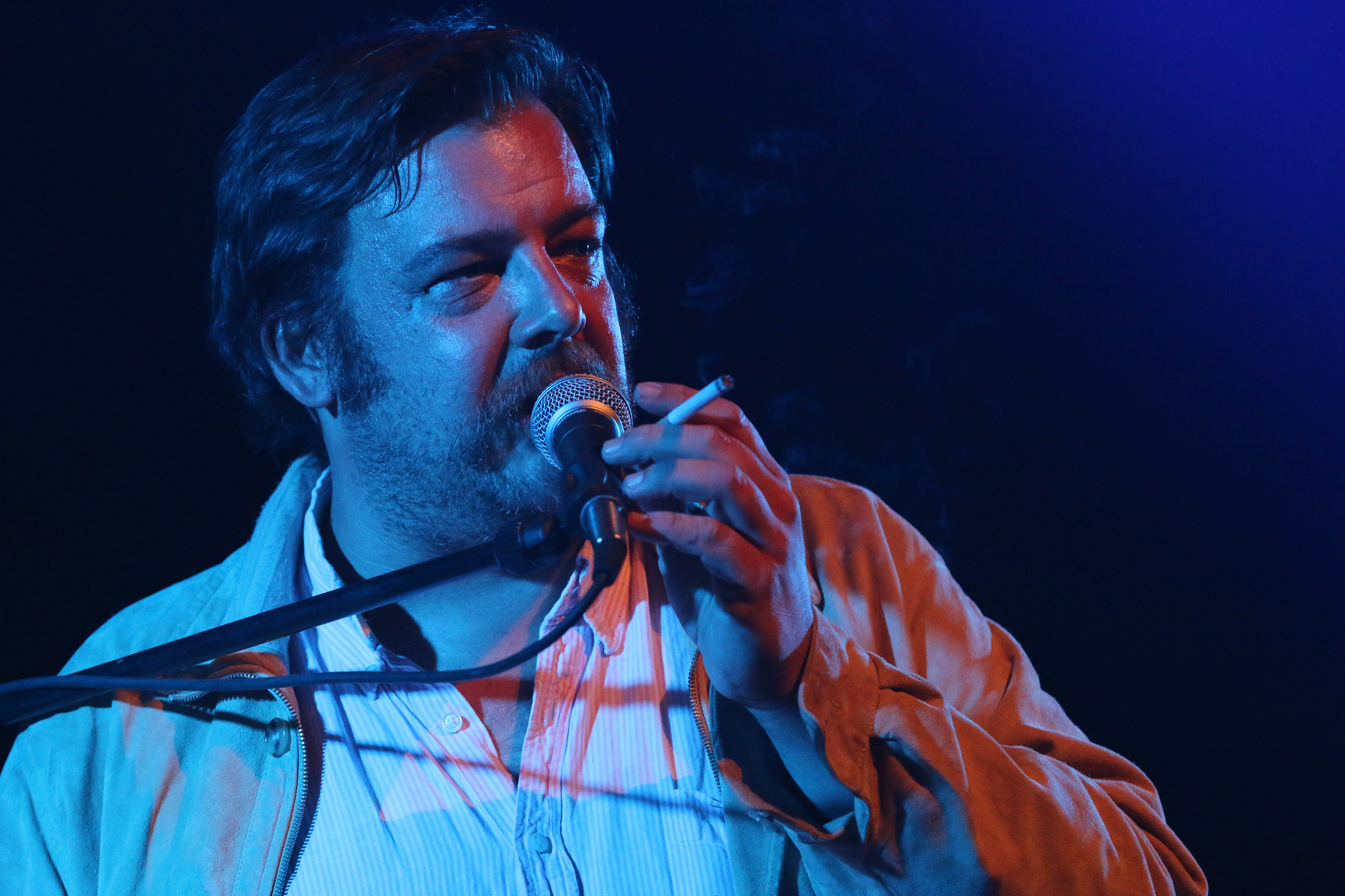 Carsten Meyer (Erobique) at the Zelt-Musik-Festival in Freiburg im Breisgau on July 16th, 2016.